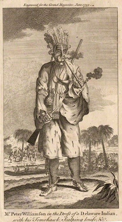 Peter Williamson, otherwise known as "Indian Peter"